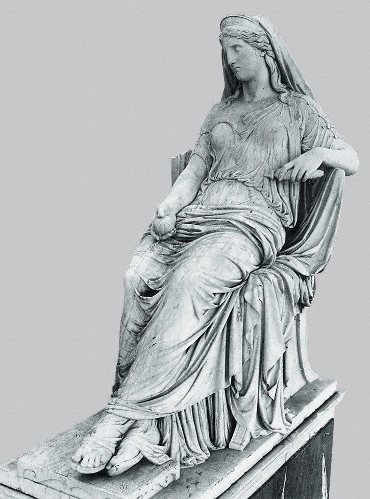 Penelope